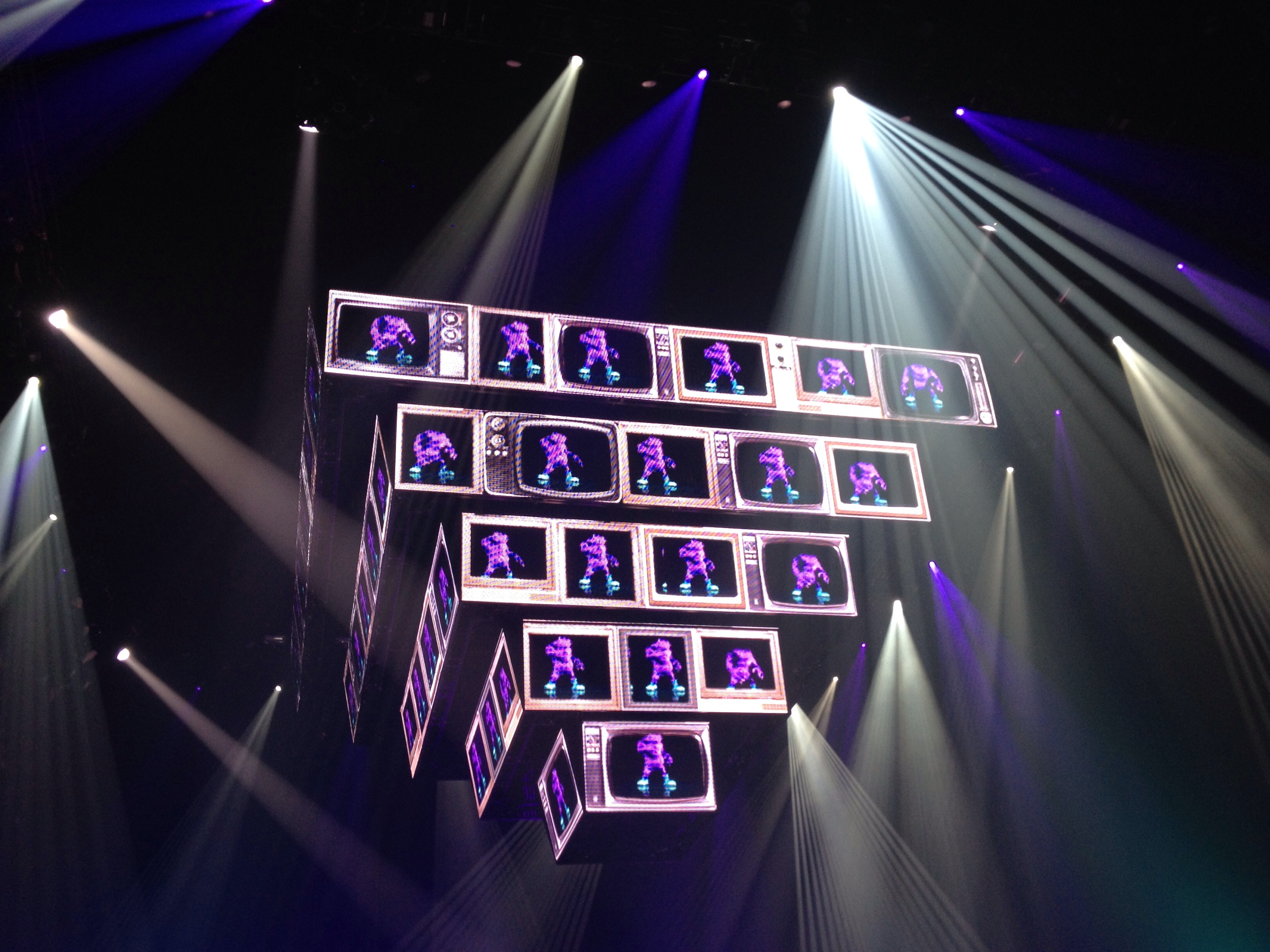 Visuals for Panic Station. Photo taken at the Schottenstein Center.